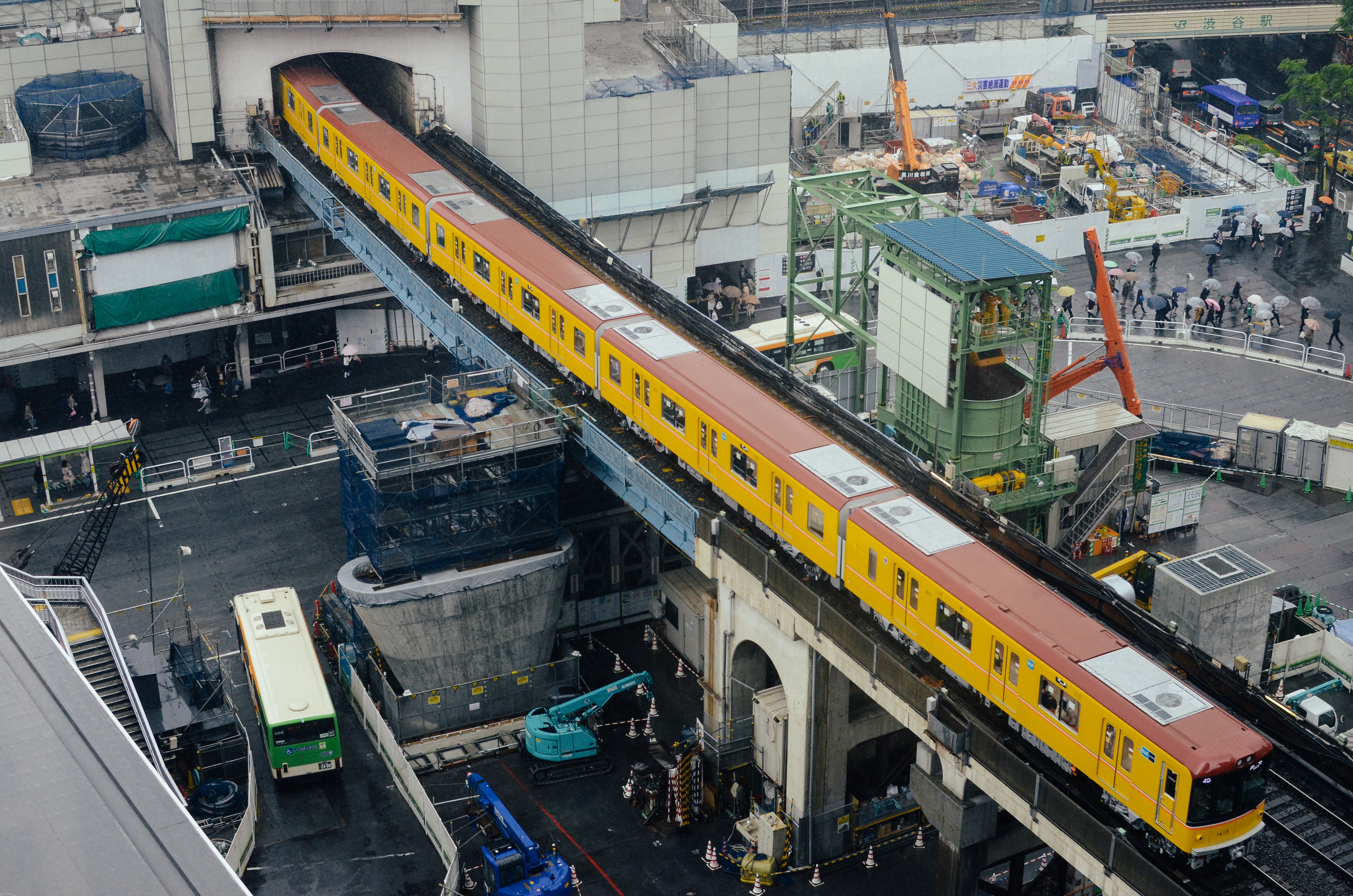 Tokyo Metro 1000 series EMU set 1113 a Shibuya in Tokyo